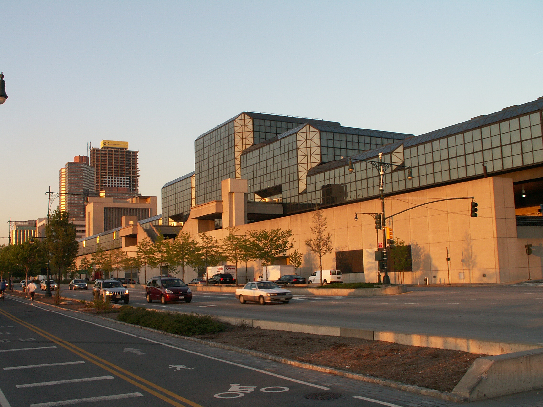 West Side Highway at 34th St by Jacob Javits Center